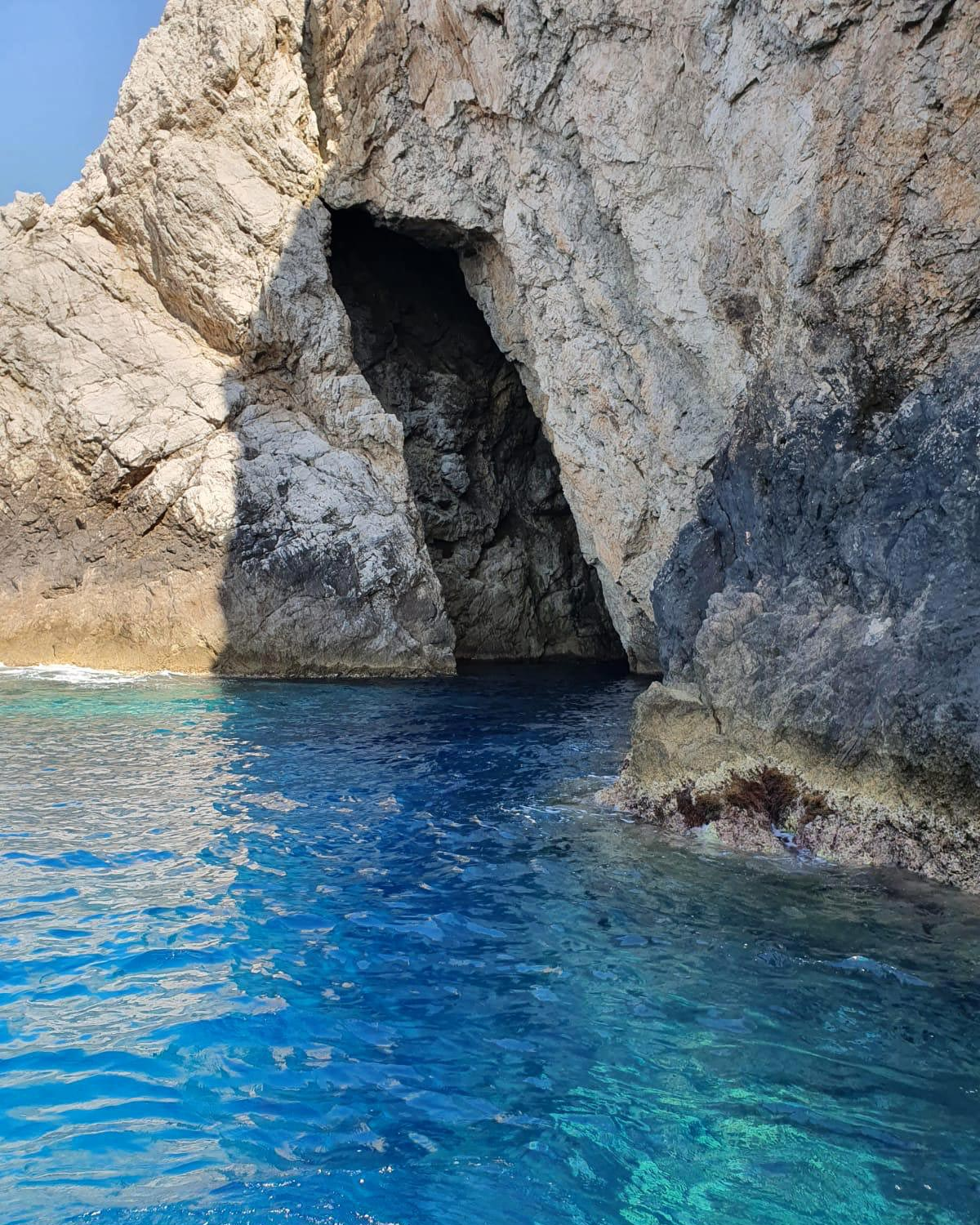 The photo was taken during the private day boat tour to the Bisevo island